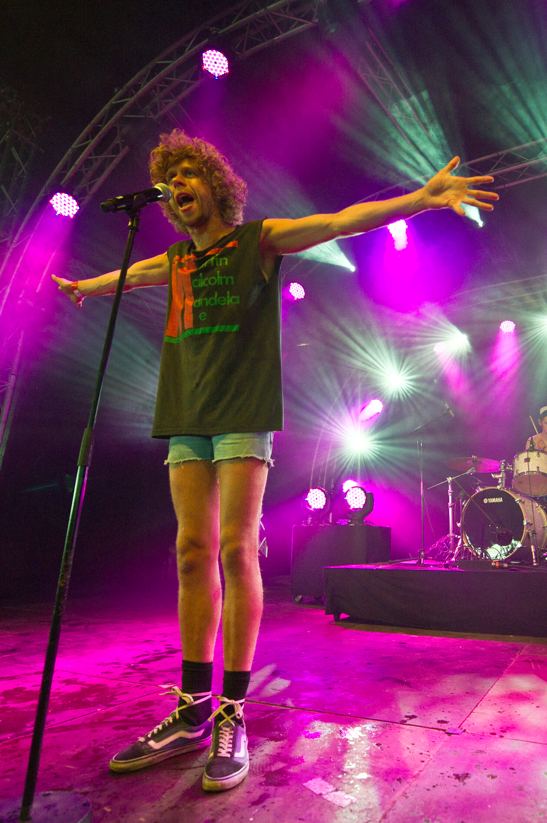 Reptile & Retard playing at Roskilde Festival, Pavallion Junior, june 26. 2011.